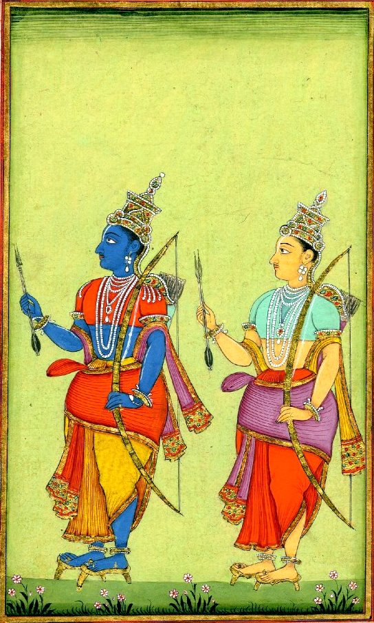 "Painting of Rama (blue-skinned, to left) and Laksmana. Both are crowned and, as iconographically required, carry bows and arrows."